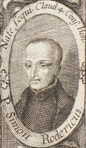 Frontispiece of the Chronica da Companhia de Iesv nos Reynos de Portugal ("Chronicle of the Company of Jesus in the Kingdom of Portugal"), by Baltasar Teles, engraving by P. Craesbeeck, 1645-1647.